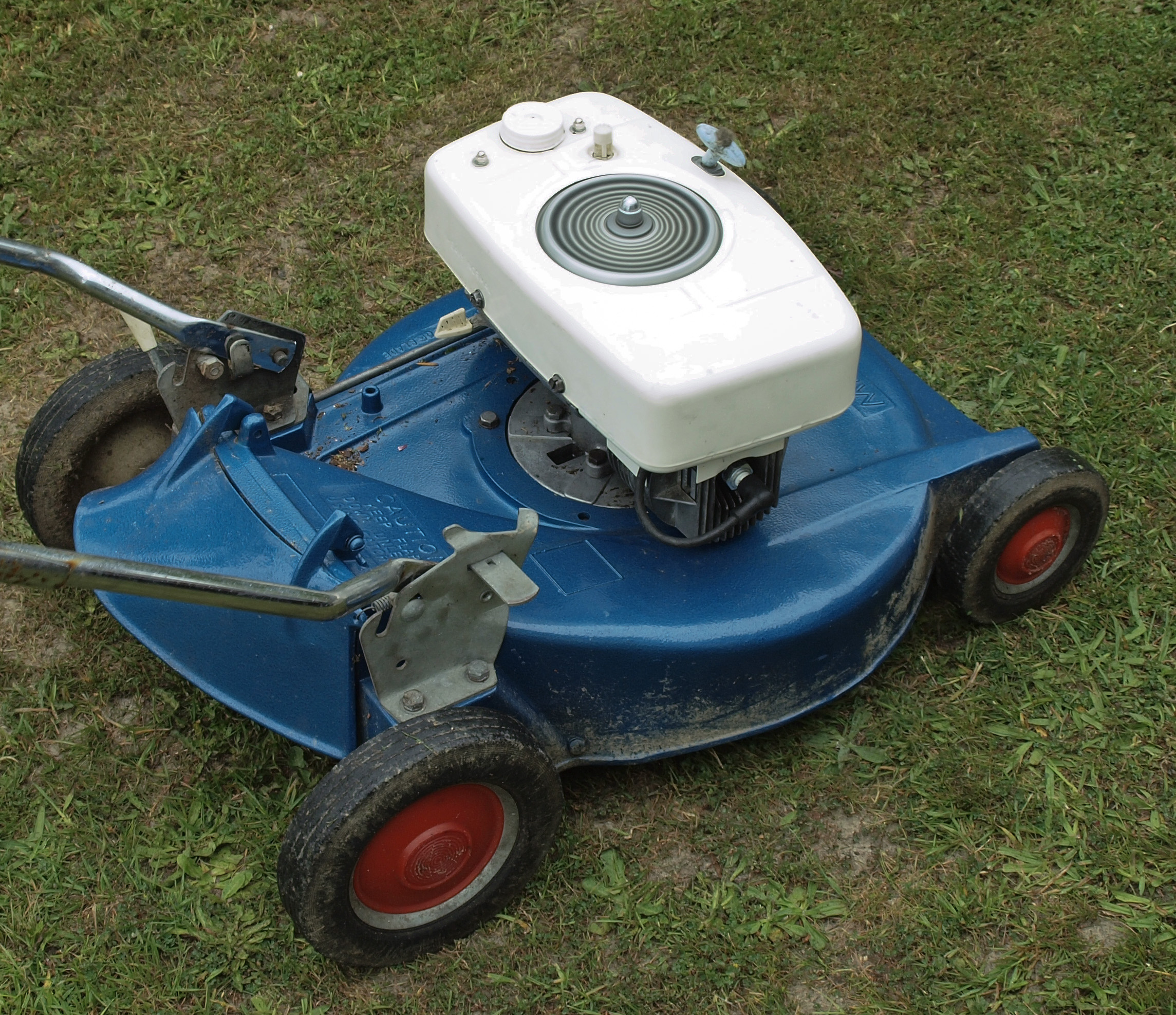 A restored Masport Premier II mower with an Iron Horse or D-400 series engine